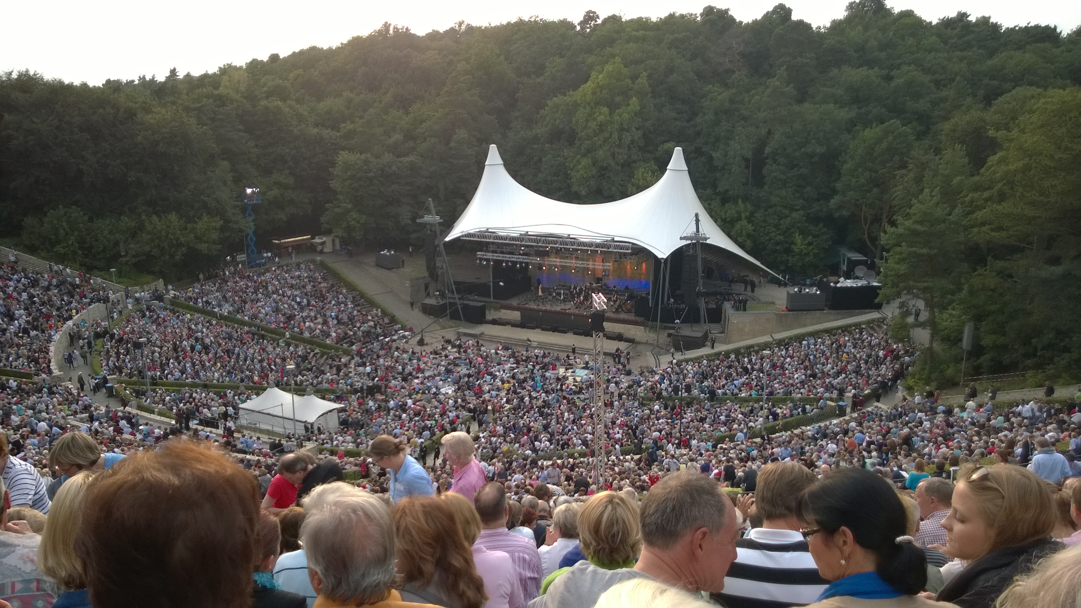 Waldbühne before a Berliner Philharmoniker concert.